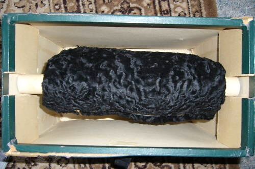 Furrier's muff bandbox with muff made of Bueno lamb fur-skin